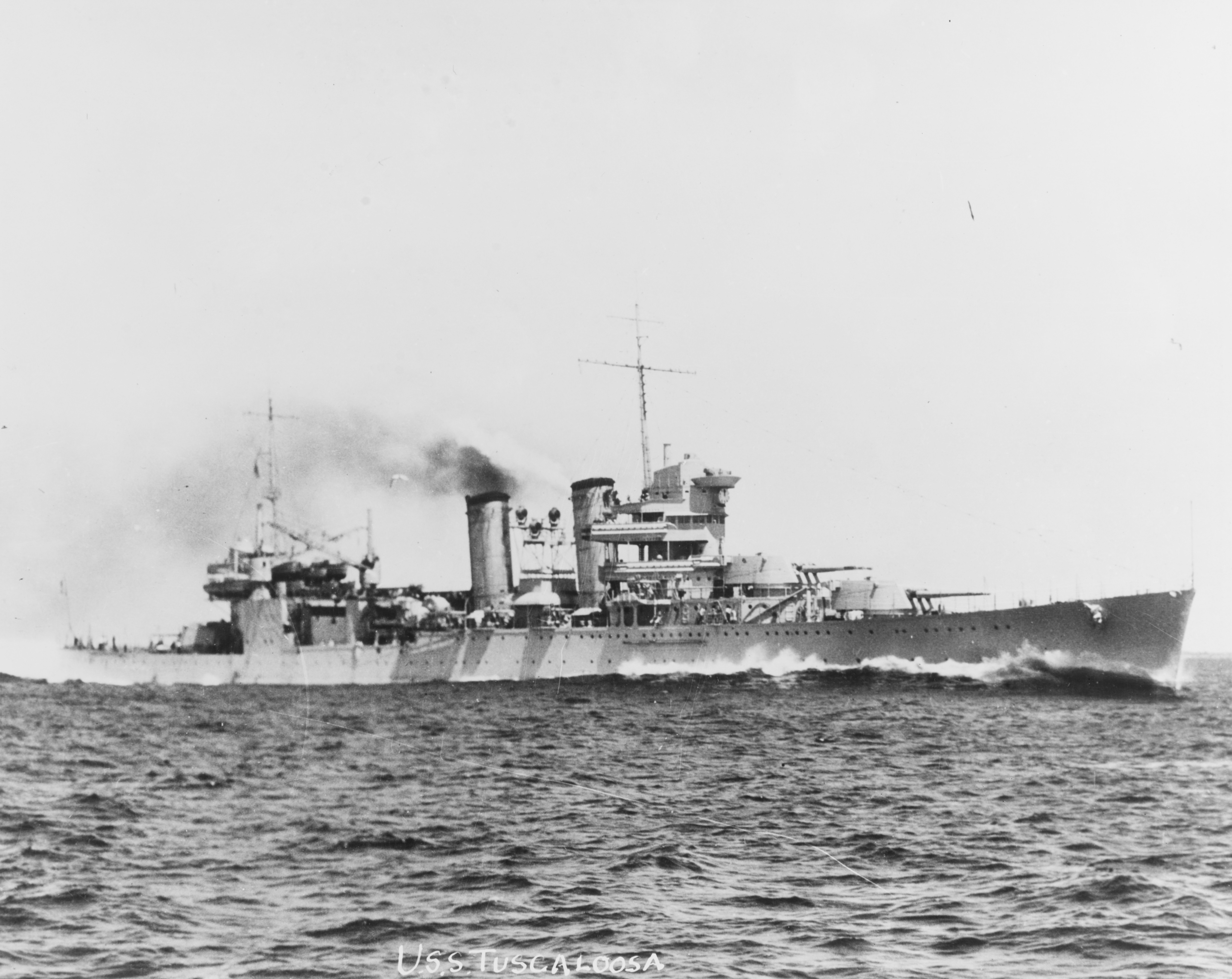 Steaming at high speed, probably during trials in 1934. Photograph from the Bureau of Ships Collection in the U.S. National Archives.